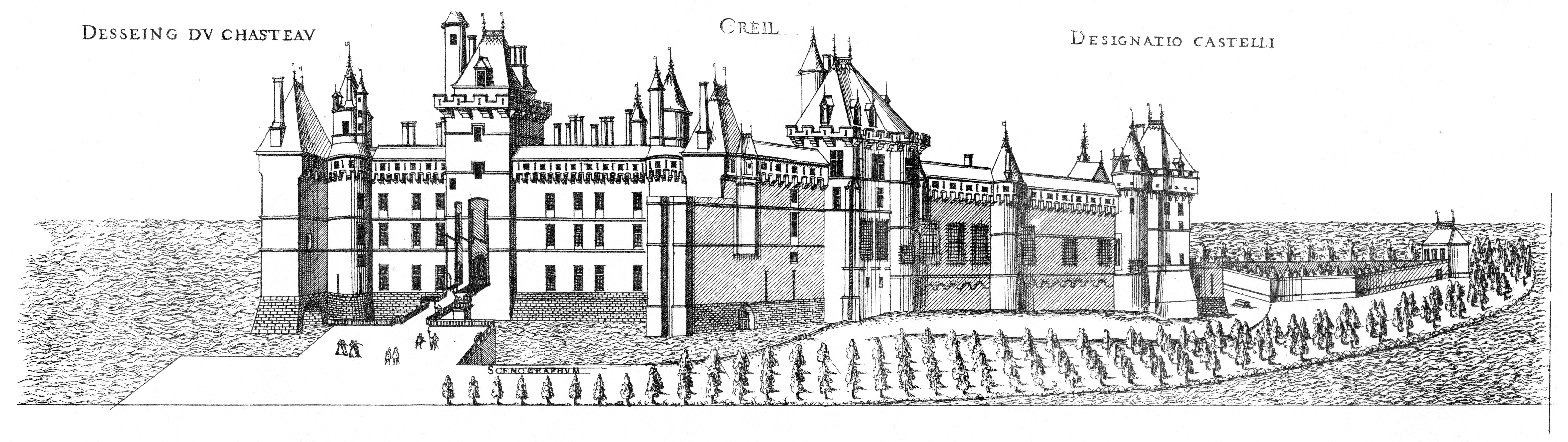 Engraving from Le premier volume des plus excellents Bastiments de France by Jacques I Androuet du Cerceau: view of the Château de Creil